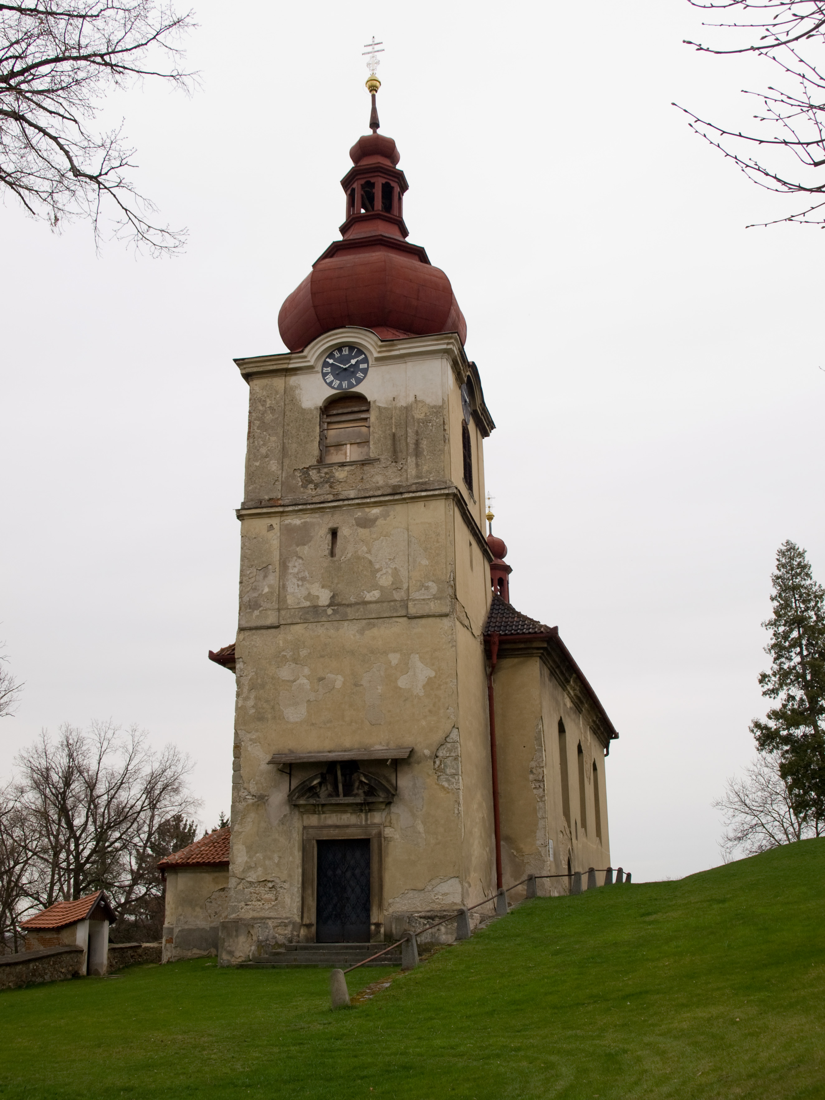 Church, Praskolesy, Beroun District, Central Bohemian Region, Czech Republic